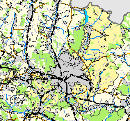 Map of Kharkiv raion, Kharkiv oblast, Ukraine